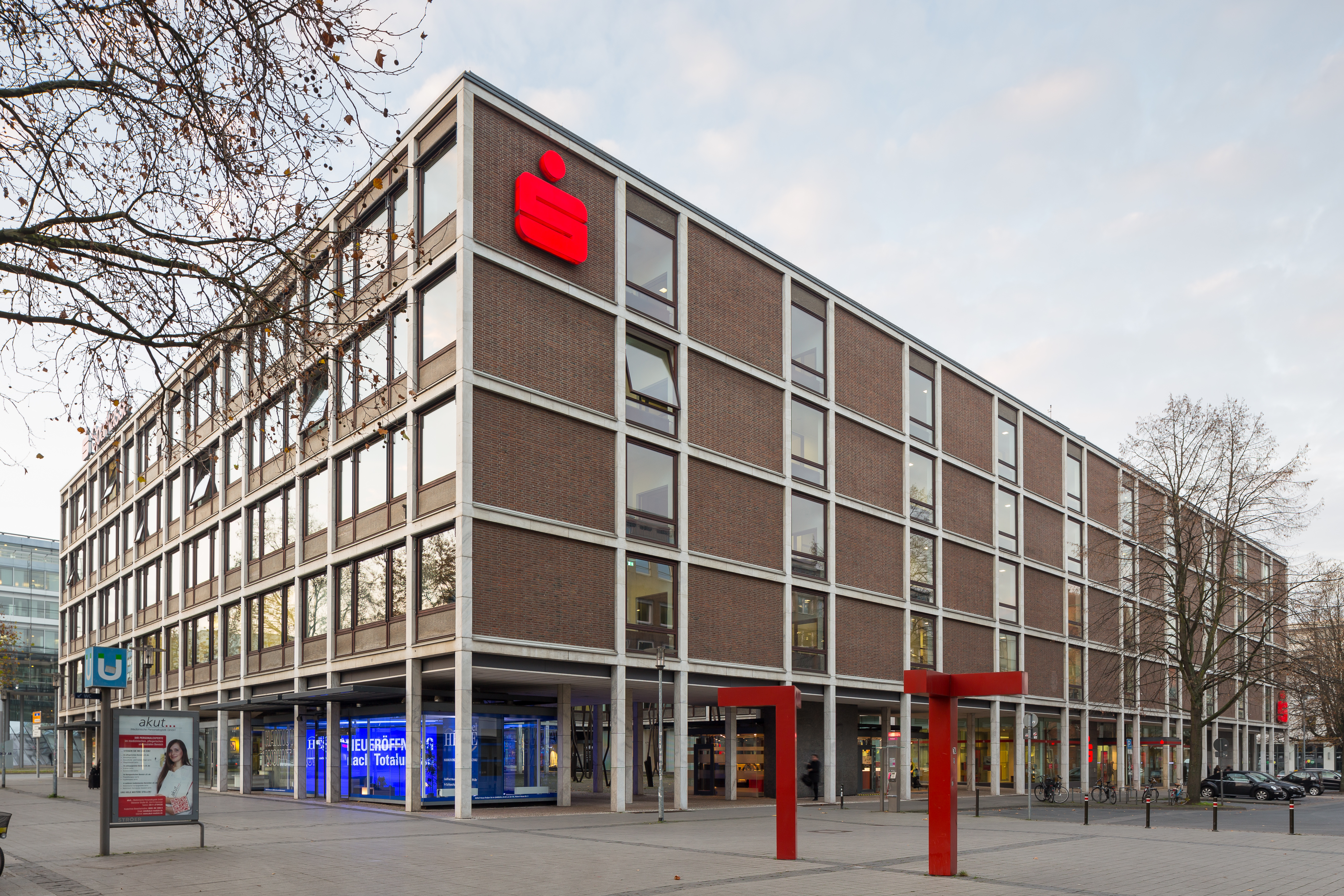 Office building of Sparkasse Hannover bank, located at Aegidientorplatz no. 1 in central Hannover, Germany.